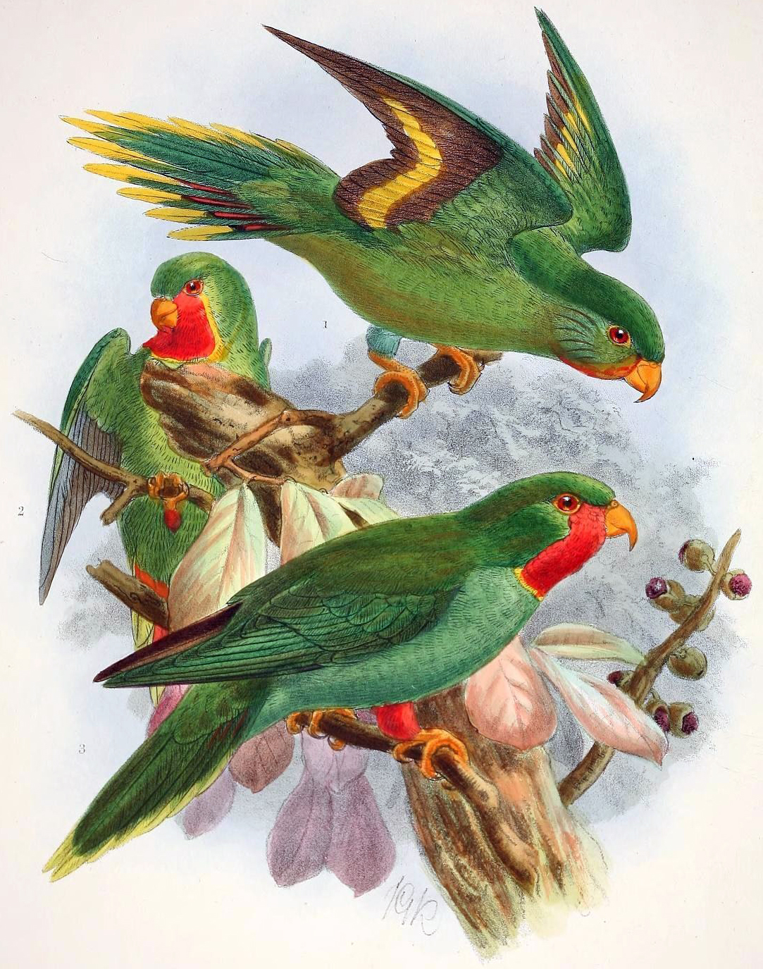 The Golden Banded Lory (Hypocharmosyna aureocincta now Golden Banded Lory) Chromolithograph. Plate LIV from A monograph of the lories, or brush-tongued parrots, composing the family Loriidae. By St. George Jackson Mivart (1827–1900).